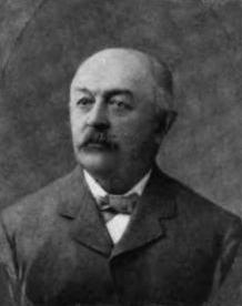 Portrait of New York state senator Walter L. Brown